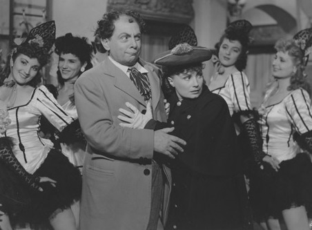 Mosquita Muerta-película argentina de 1946